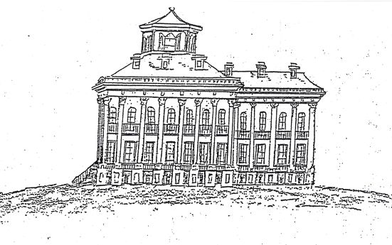 Sketch of Windsor Mansion near Bruinsburg, Mississippi